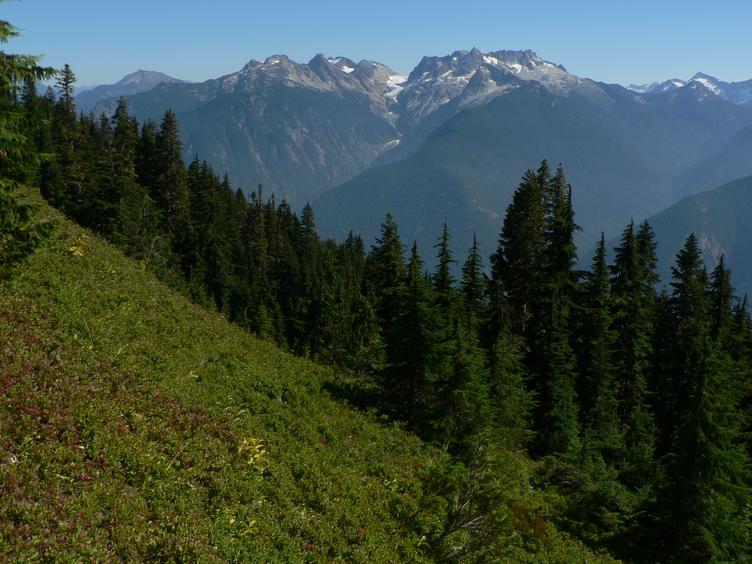 Paul Bunyans Stump Pyramid Peak (left), Pinnacle Peak, Colonial Glacier, Ladder Creek Glacier (center), The Needle, Primus Peak (right)